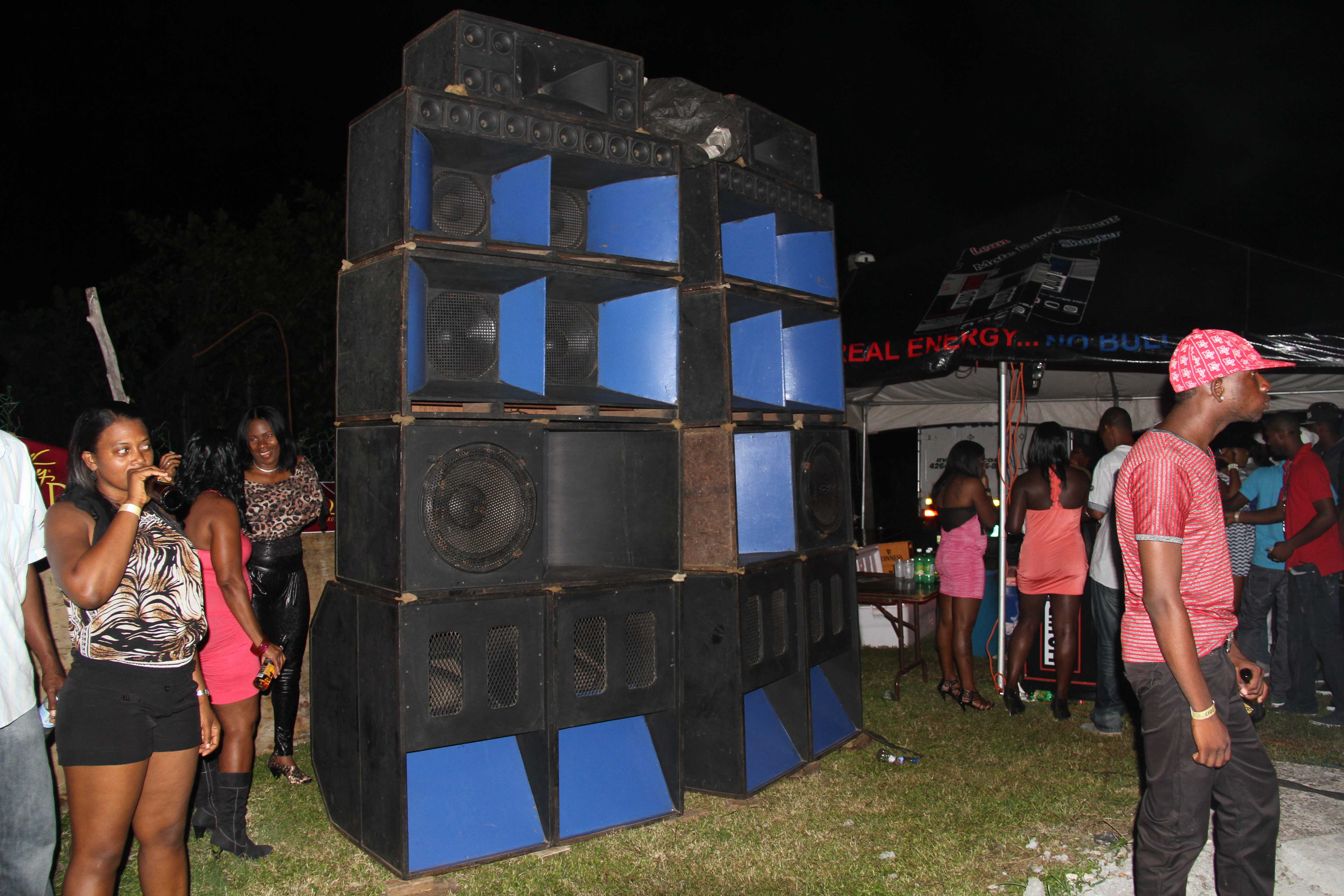 A section of the Bass Odyssey Sound System, each sound system has a minimum of four columns, the company currently has two local (Jamaican)systems.